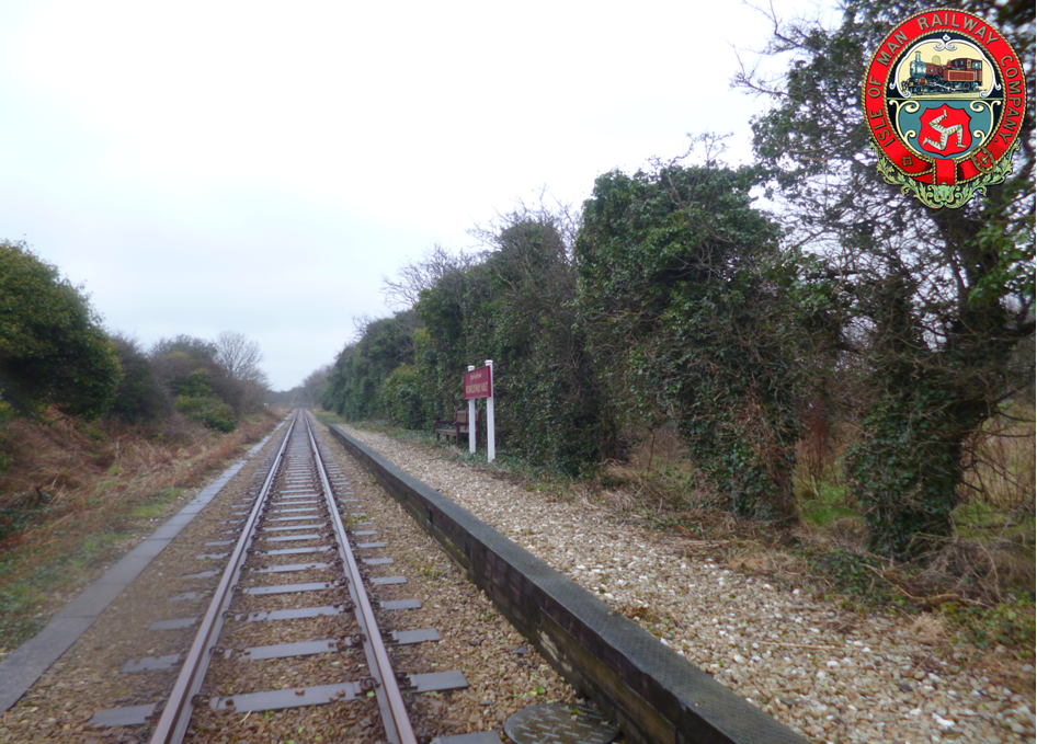 The diminutive request stop at Ronaldsway Halt on the Isle of Man Railway